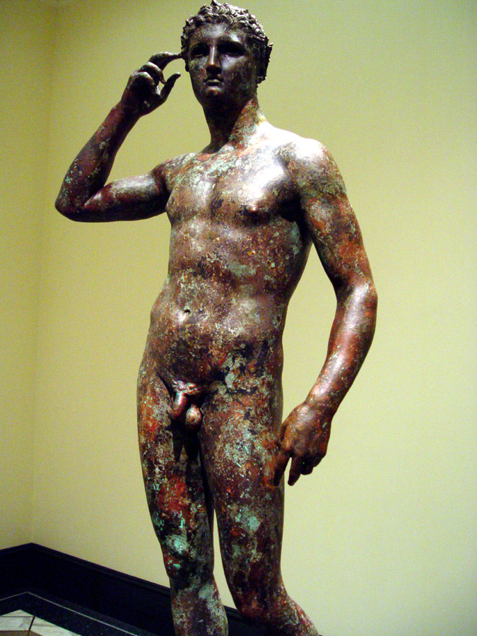 Missing the feet, ankles, eyes, part of the crown and the palm branch originally brought in the left hand. The statue is supported by a stainless steel rod inserted in his right leg.